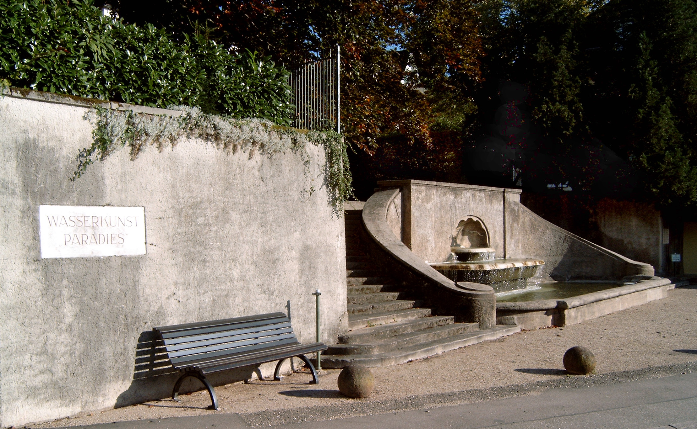 Paradies in Baden-Baden